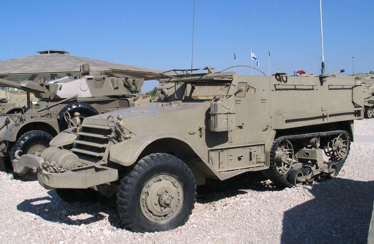 Description: Halftrack (M5/M9) in Yad la-Shiryon Museum, Israel. Source: Photo by me, User:Bukvoed.